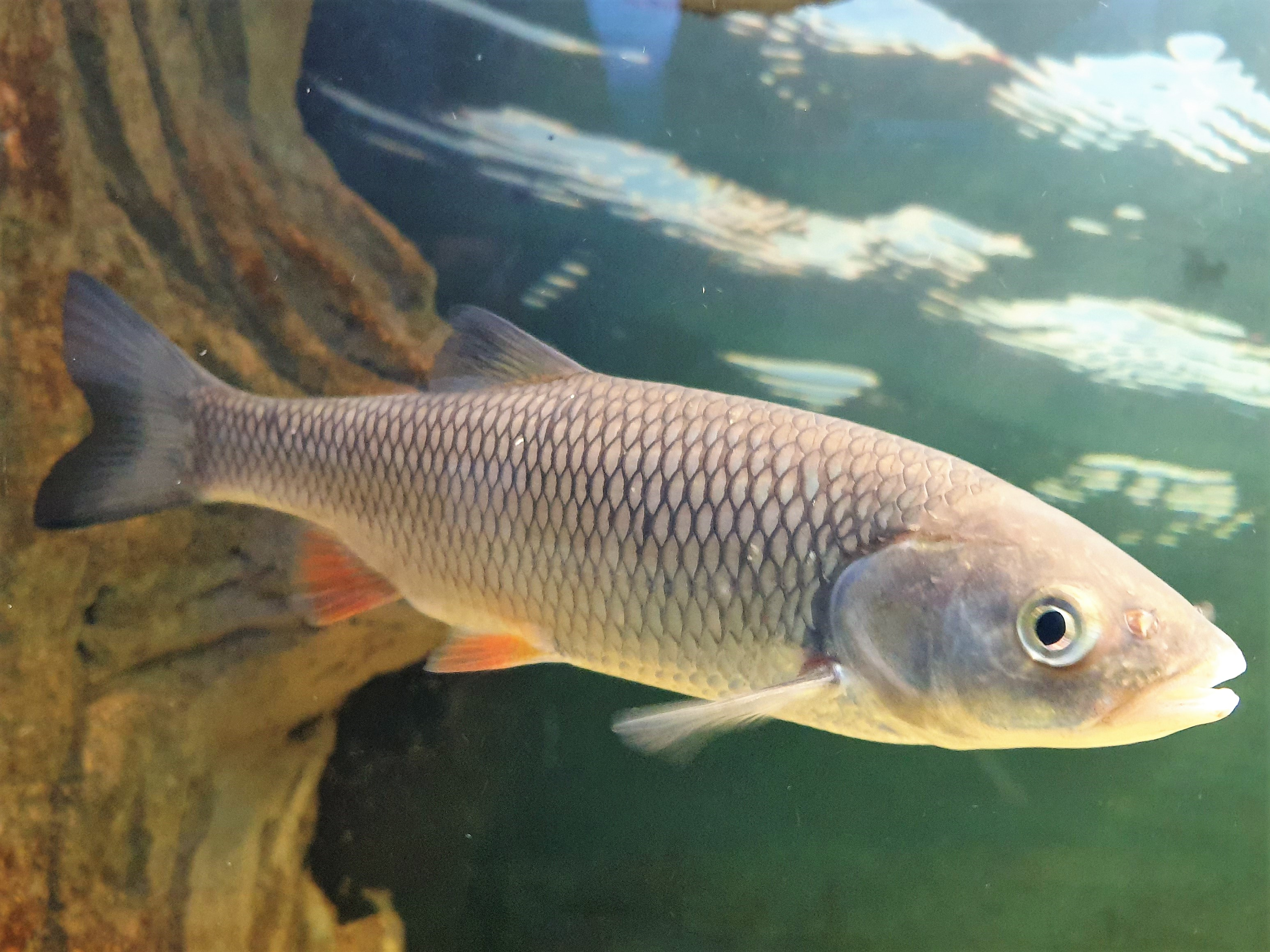 Common chub (Squalius cephalus) at the Bodorka Balaton Aquarium in Balatonfüred, Hungary.